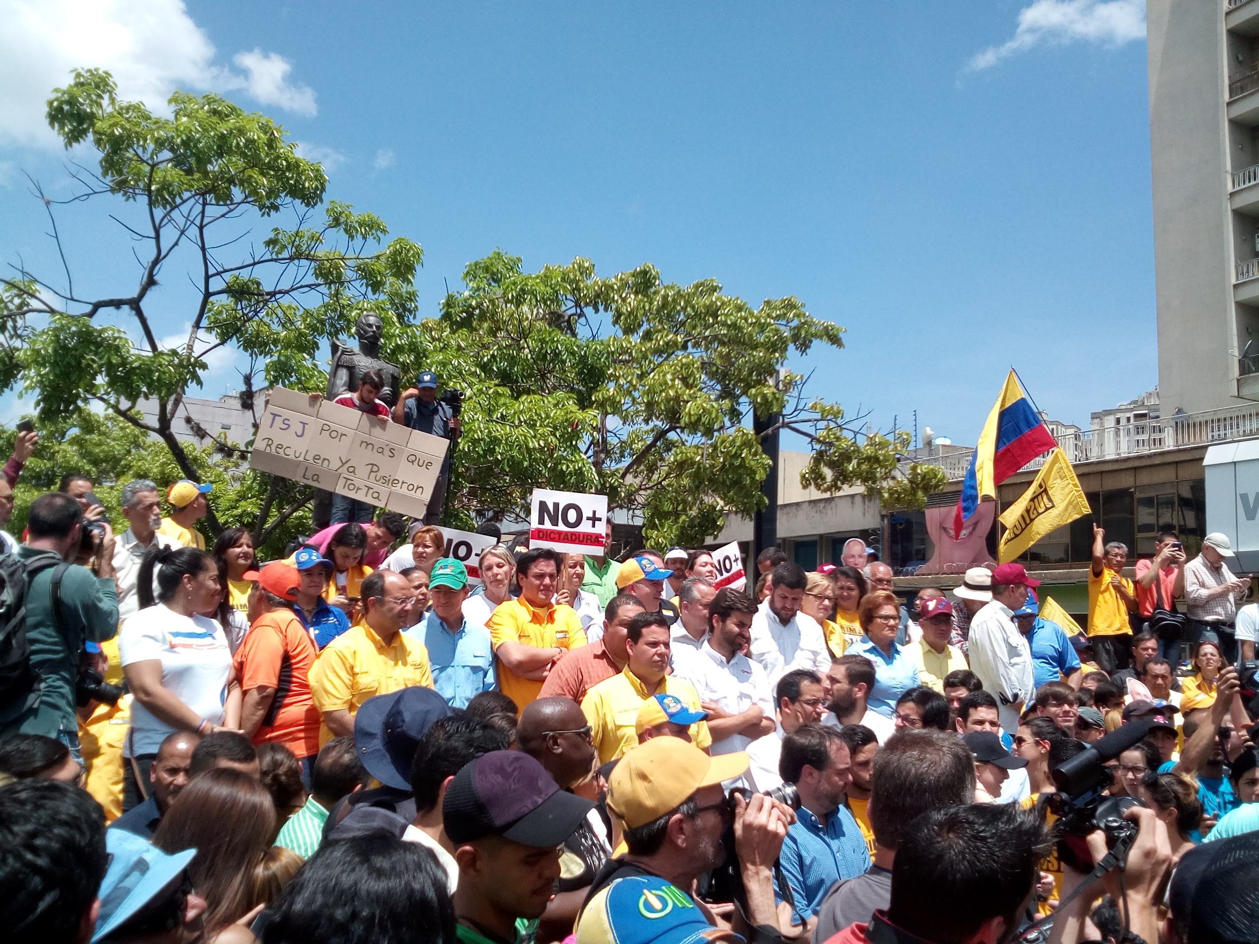 Venezuelan National Assembly special session in Brión Square, Caracas, on 1 April 2017